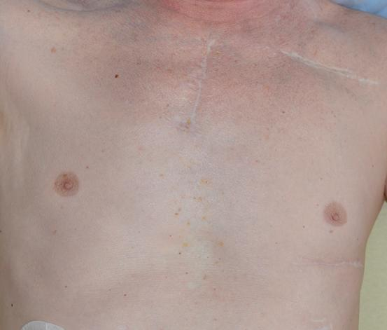 2 years after minimal-invasive LVAD implantation